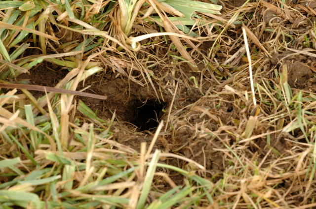 Microtus arvalis burrow, from Commanster, Belgian High Ardennes (50°15'20``N,5°59'58``E)